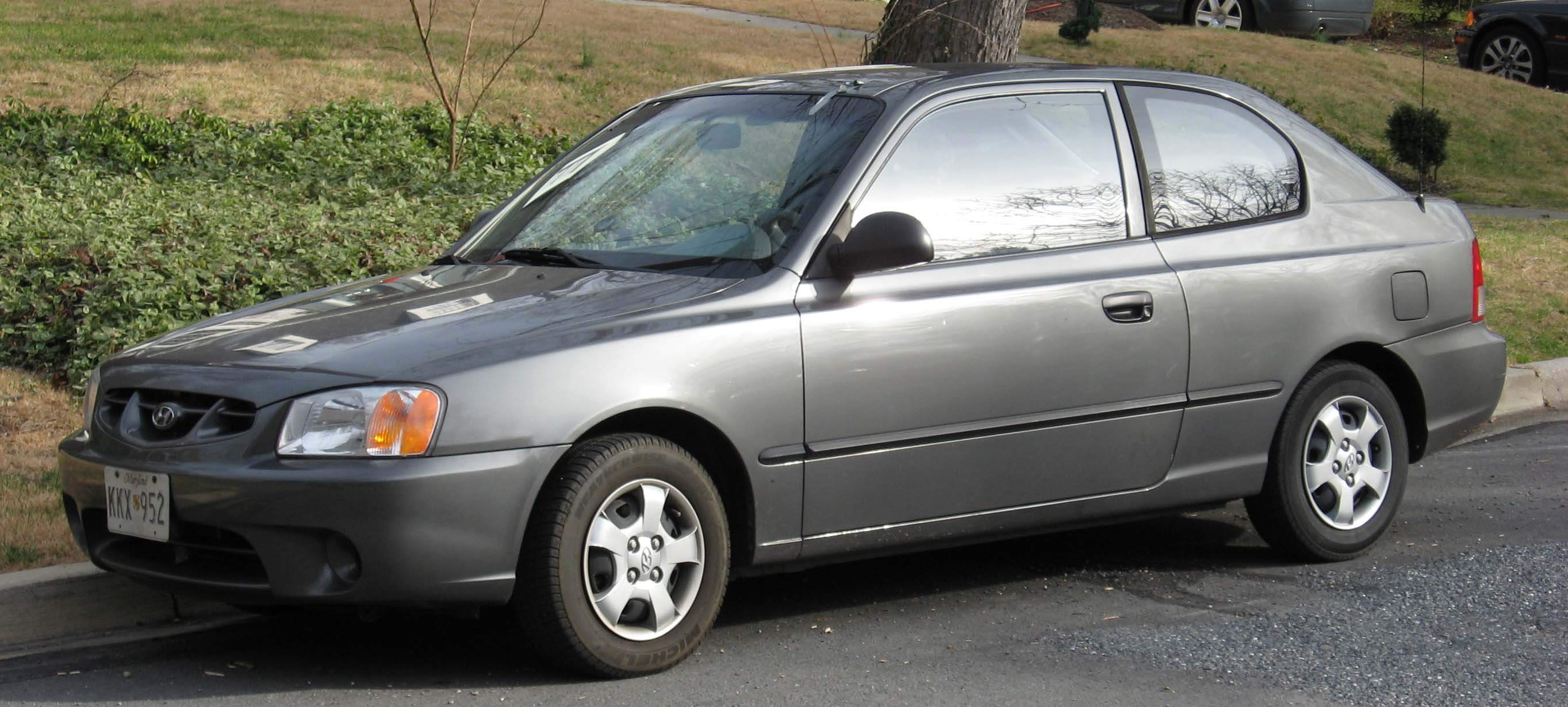 2000-2002 Hyundai Accent photographed in USA.